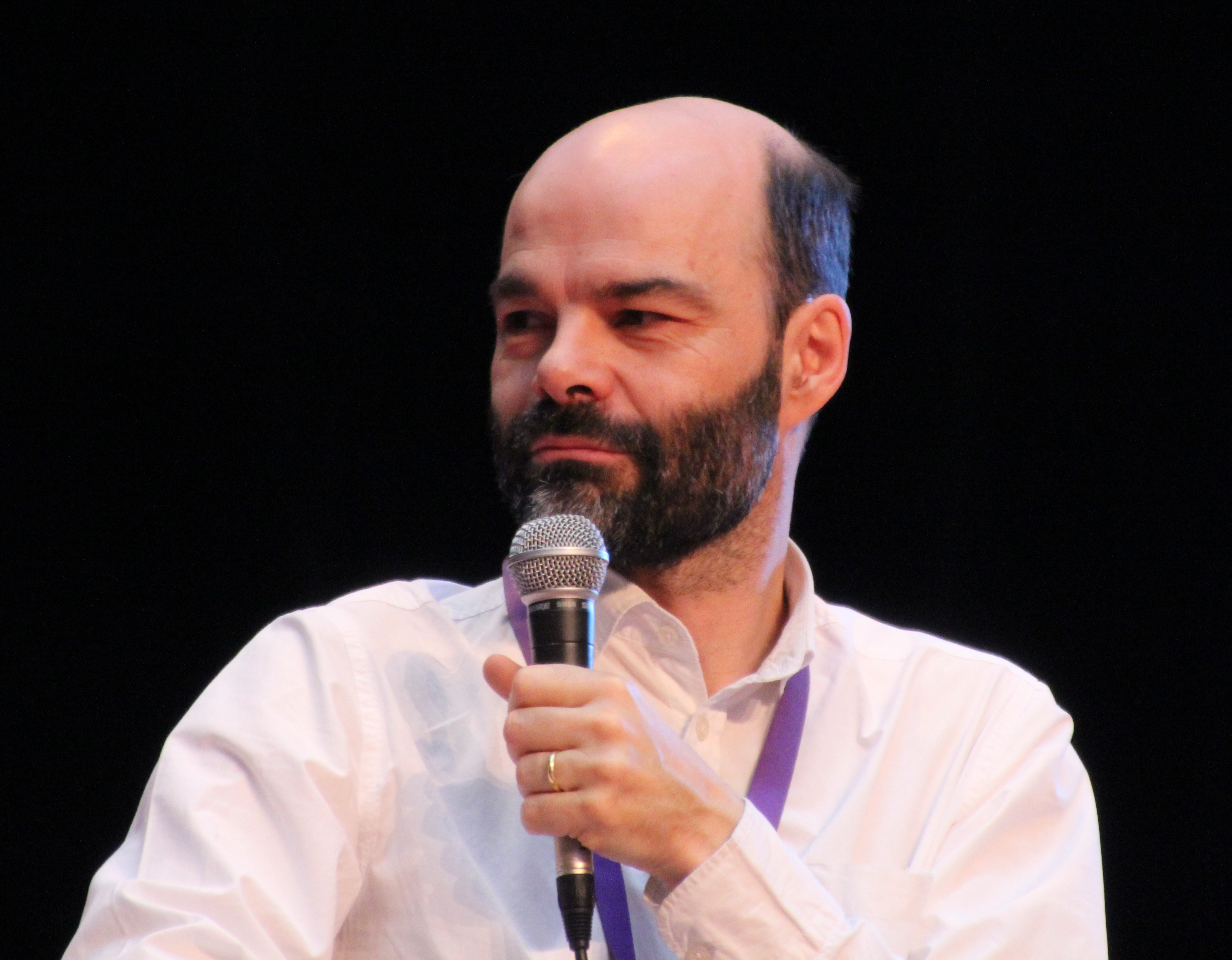 Roland Lehoucq at Utopiales 2013 in Nantes, France.